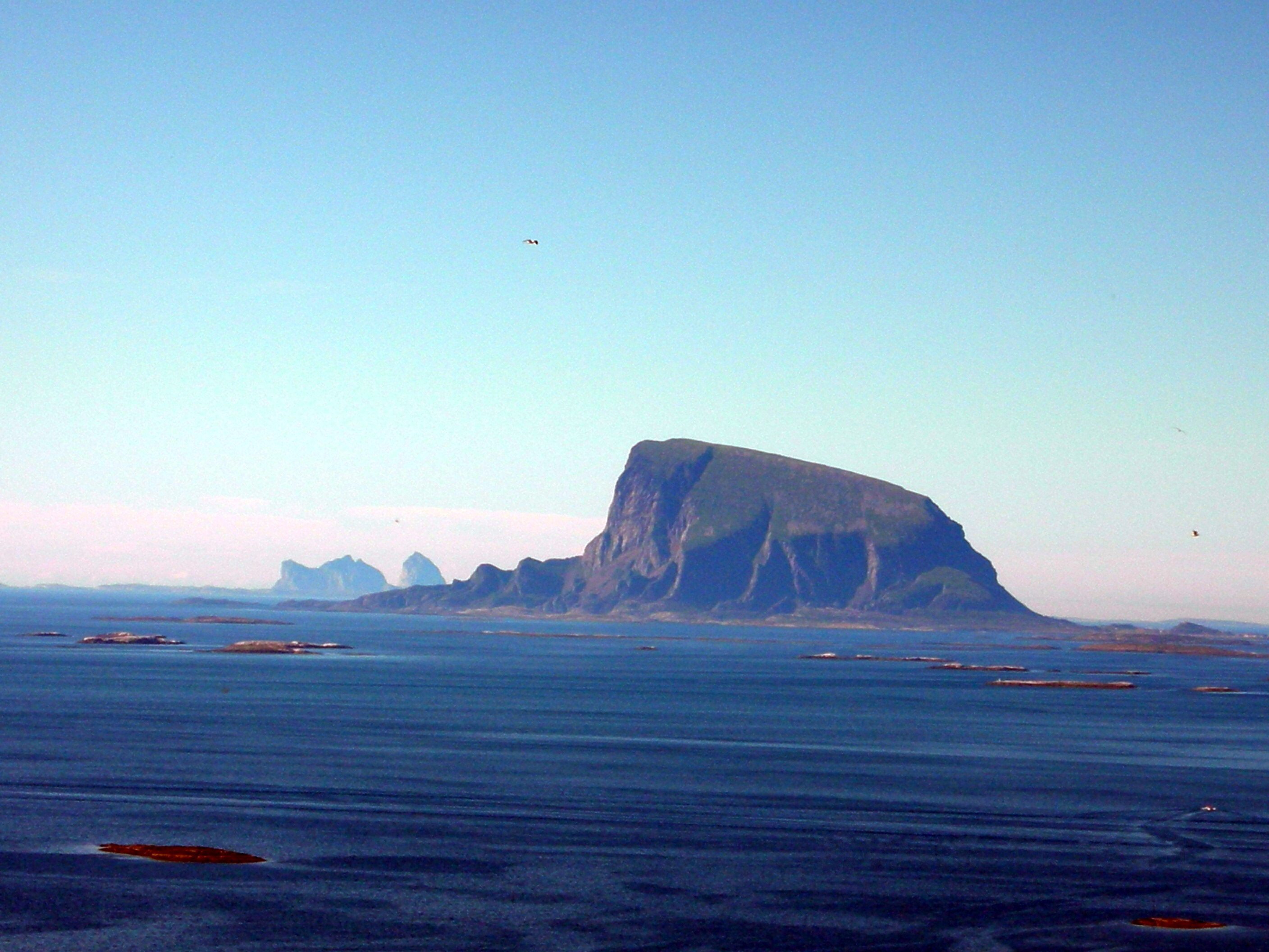 The island Lovund in Helgeland, Norway. The island Træna (Traena) in the background